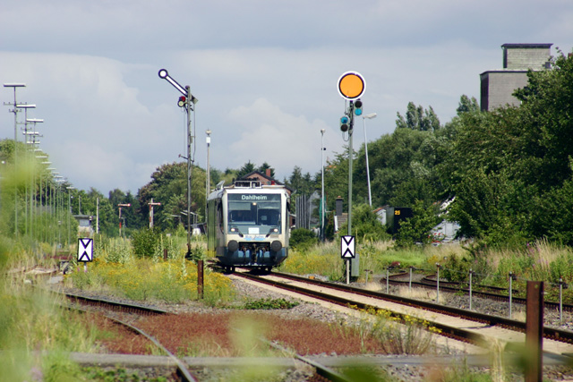 Iron Rhine, railway between Antwerpen and Mönchengladbach